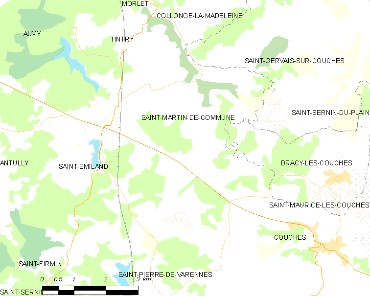 Map of French municipality